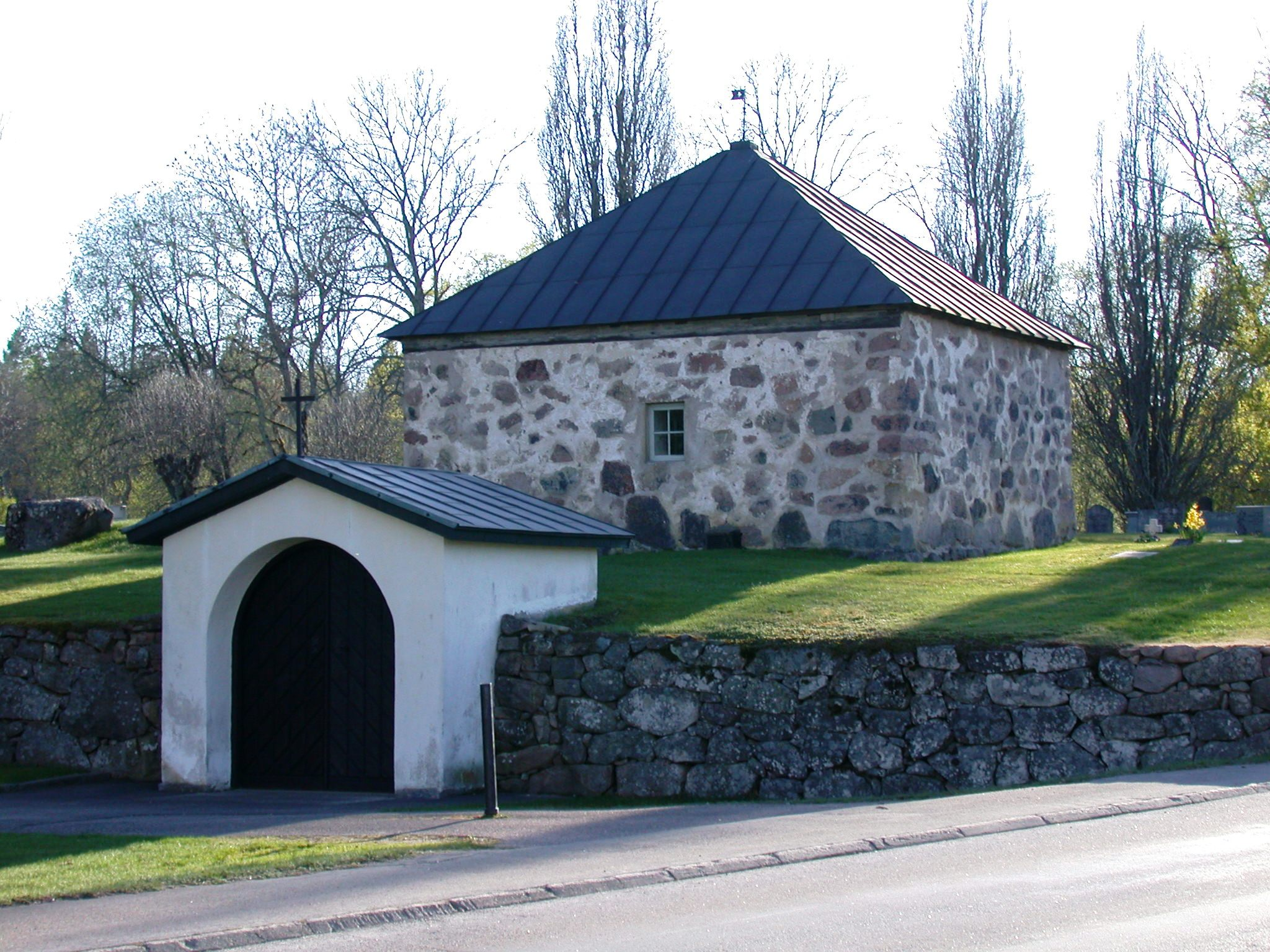 From the cemetary at Älghult church, Uppvidinge, Sweden